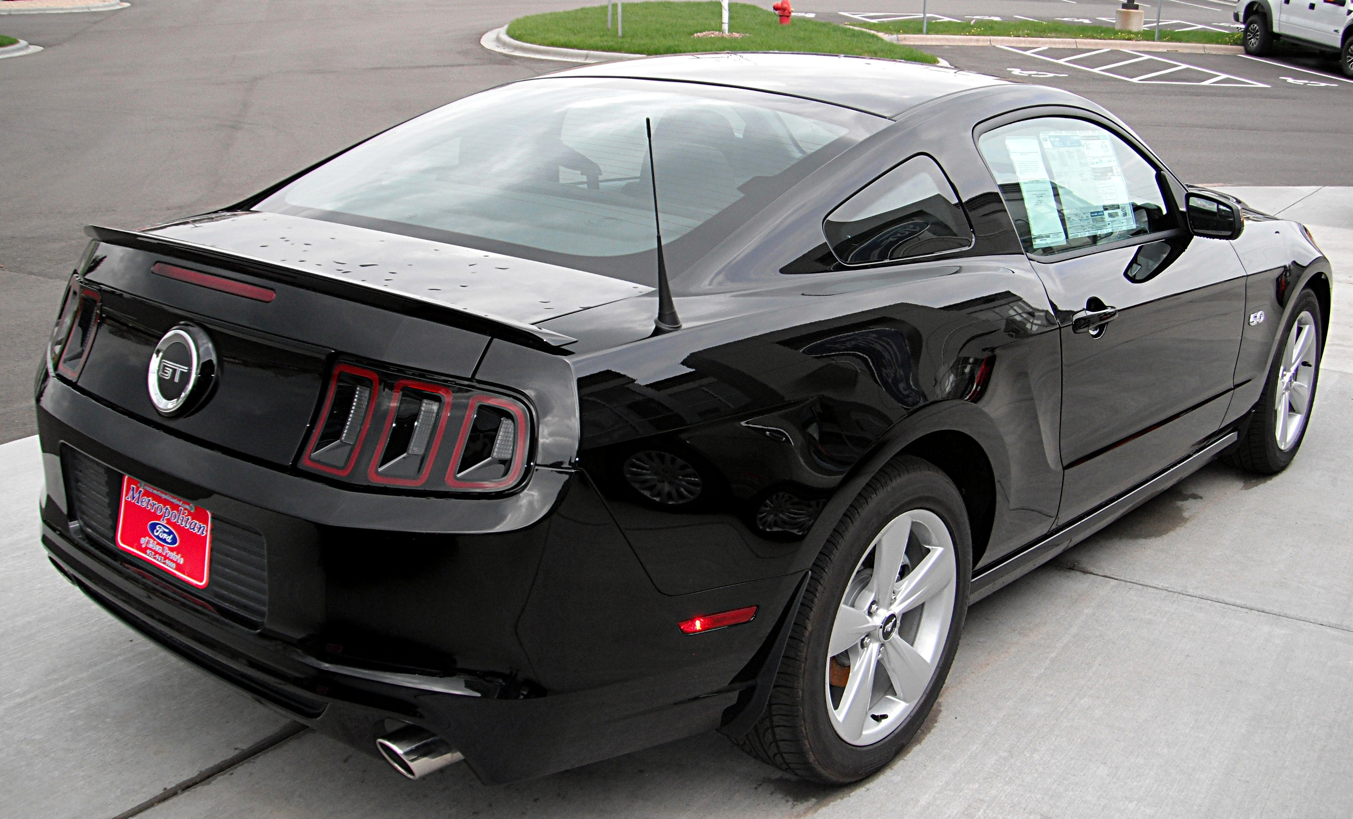 2013 Ford Mustang GT (rear view)